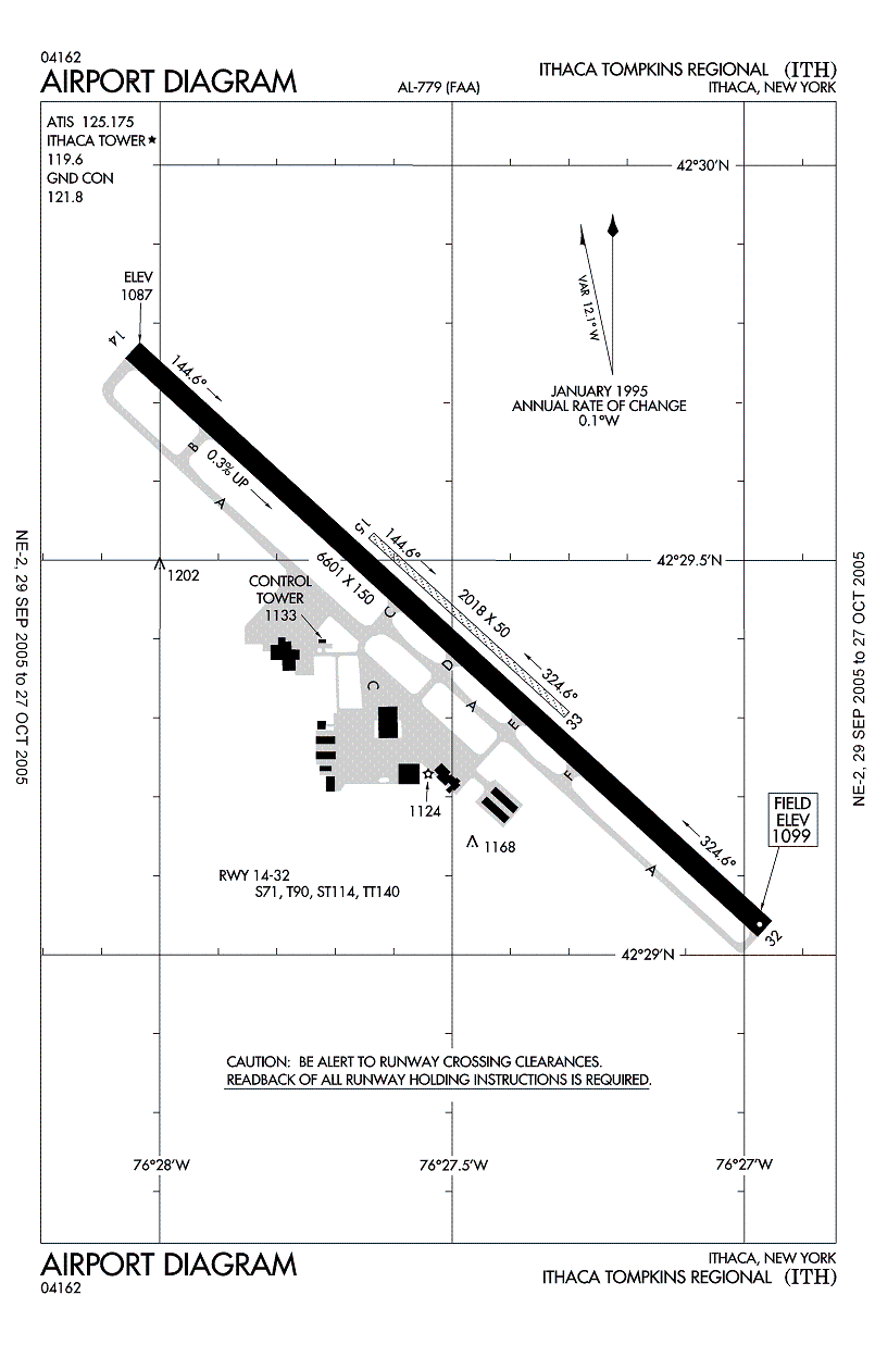 FAA airport diagram for Ithaca Tompkins Regional Airport (ITH) in Ithaca, New York, United States.